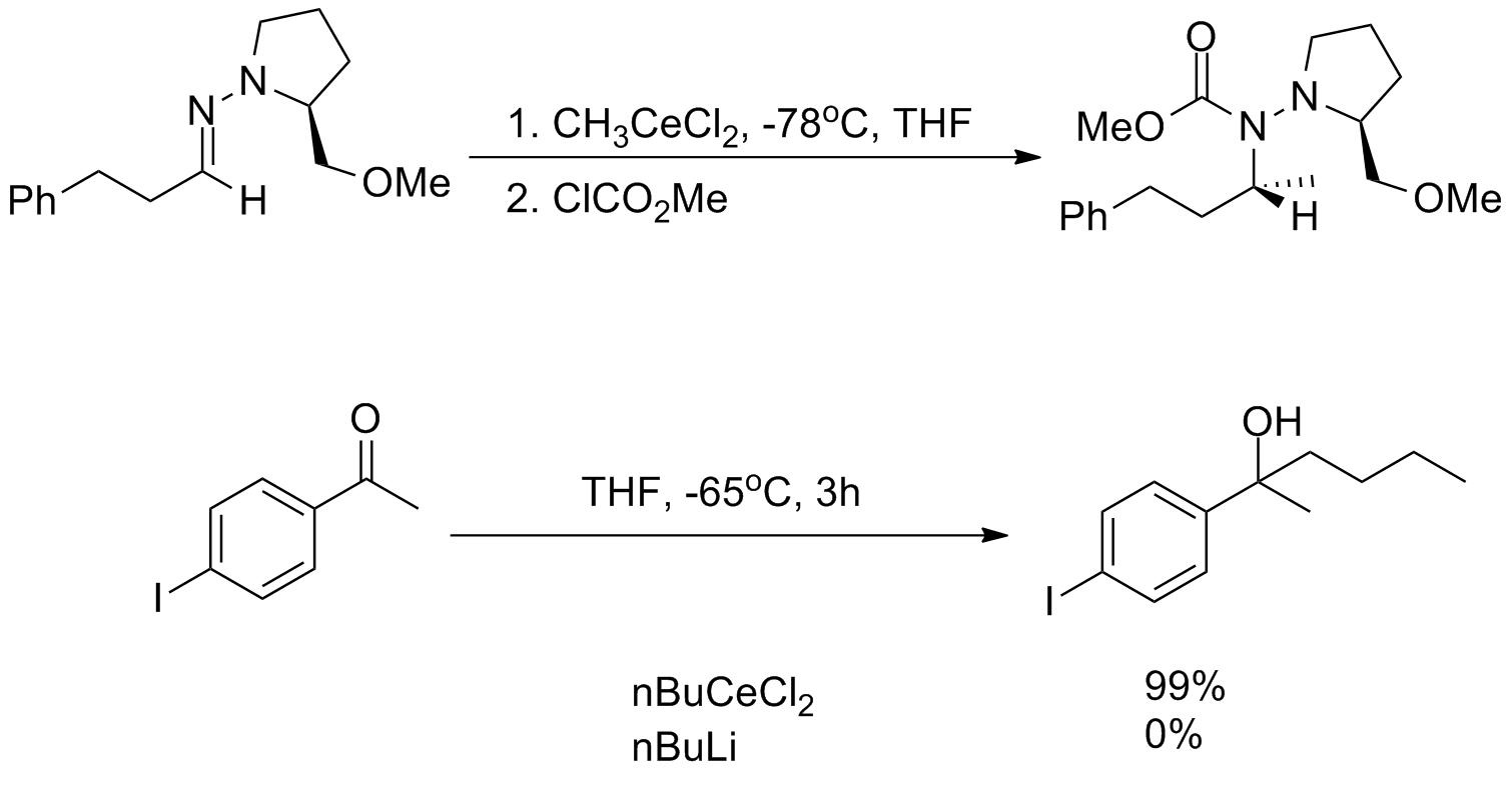 nucleophilicity of organocerium compounds